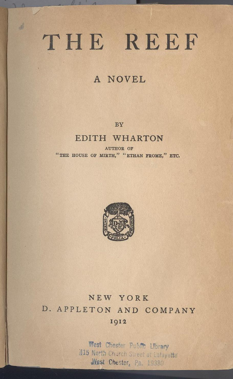 Title page of a first edition copy of "The Reef," by Edith Wharton.